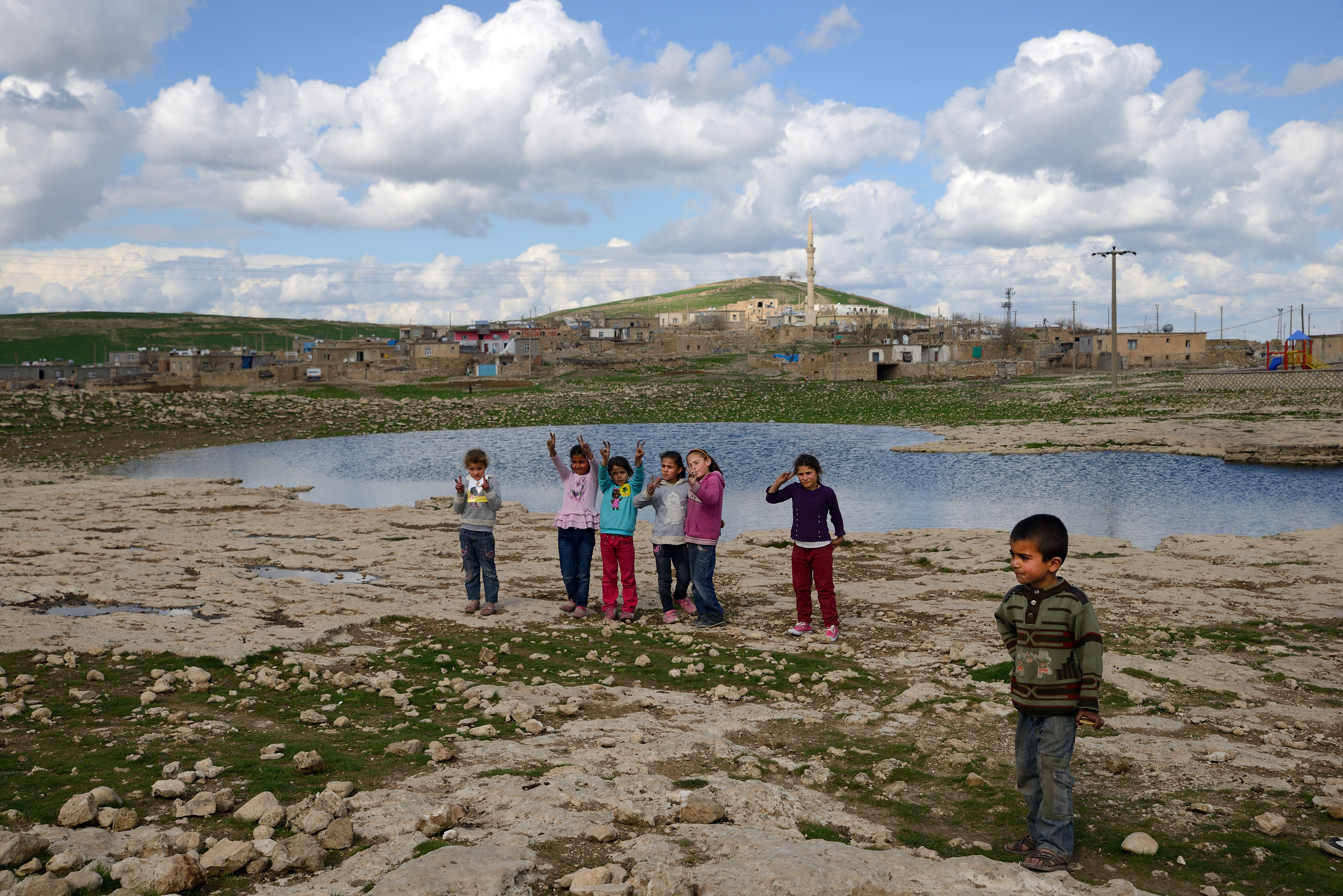 Kurdish children